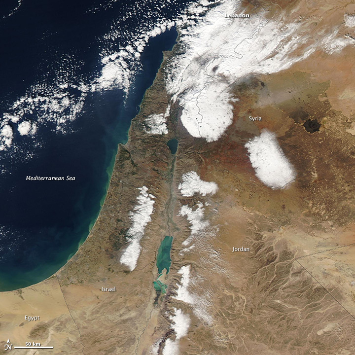 Israel and its current neighbors, with a rare dusting of snow over many areas.